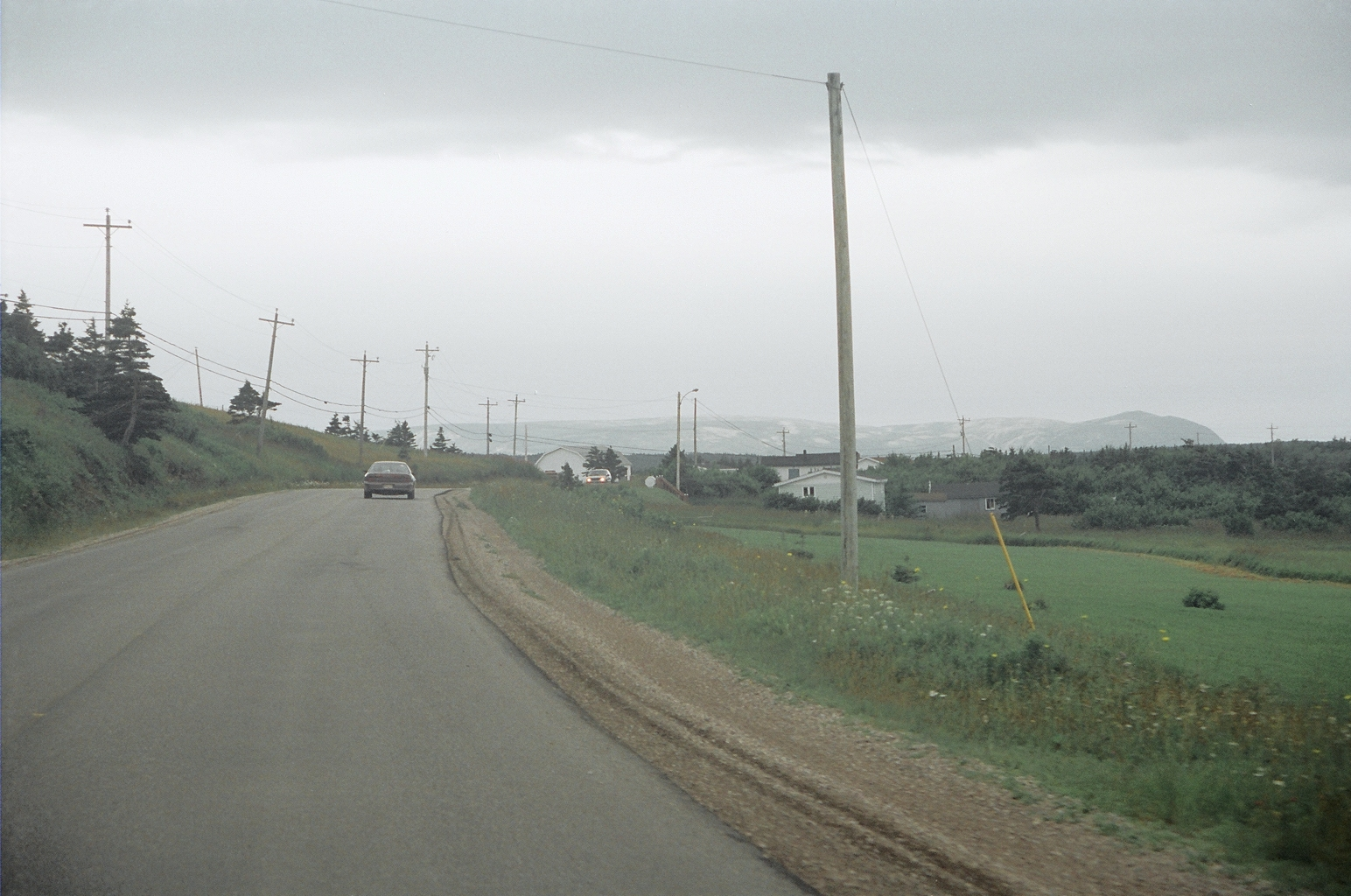 West coast of Newfoundland (Three Rock Cove shown in above photograph) including Port au Port peninsula, to Port aux Choix and Long Range Mountains. Stephenville and Corner Brook. Newfoundland and Labrador Route 463.